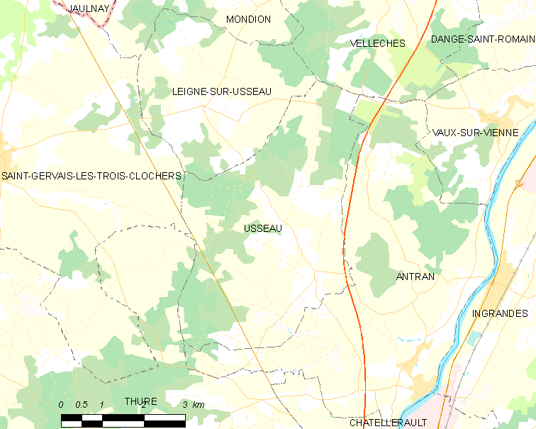 Map of French municipality Usseau